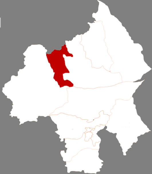 Location of Linxi County in Chifeng City, China